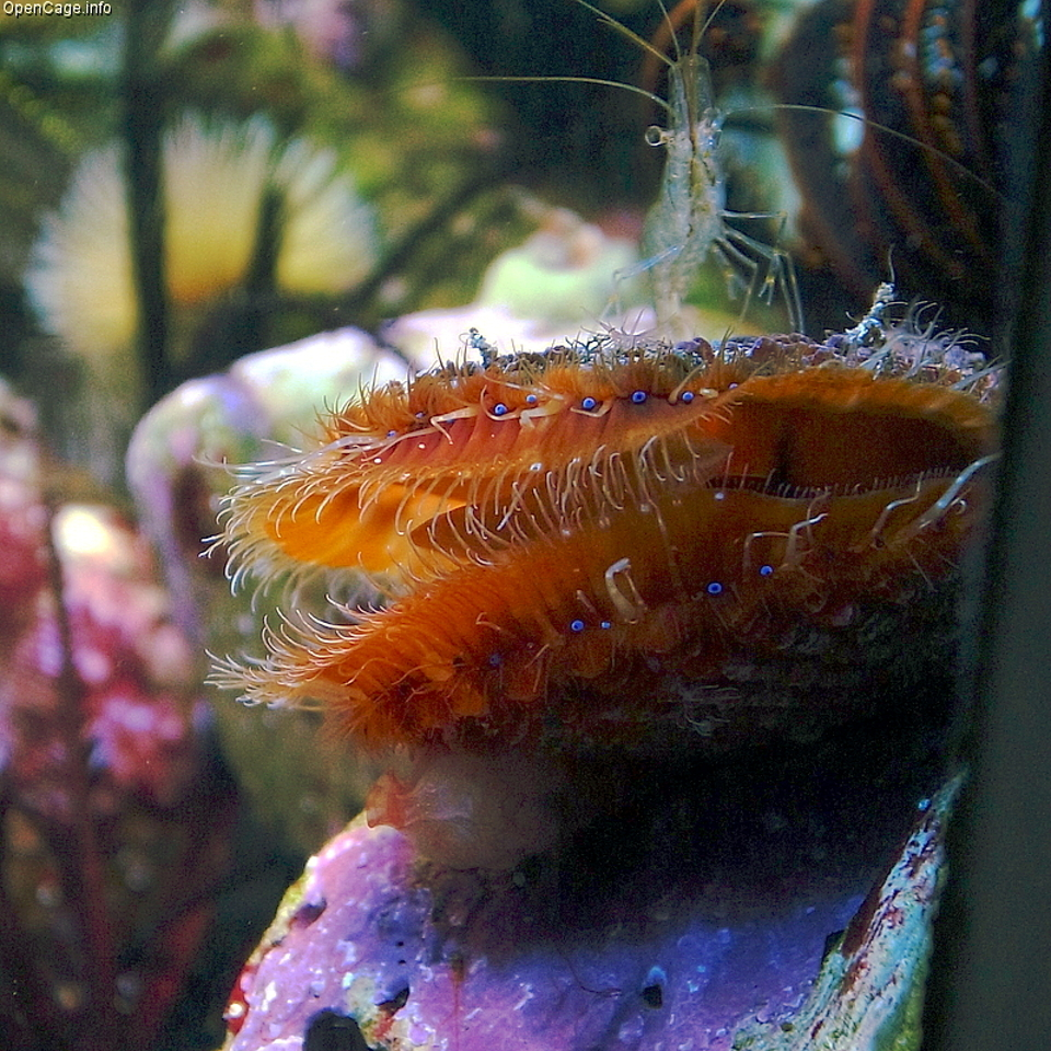 Noble scallop (Chlamys nobilis), in Port of Nagoya Public Aquarium, Japan.